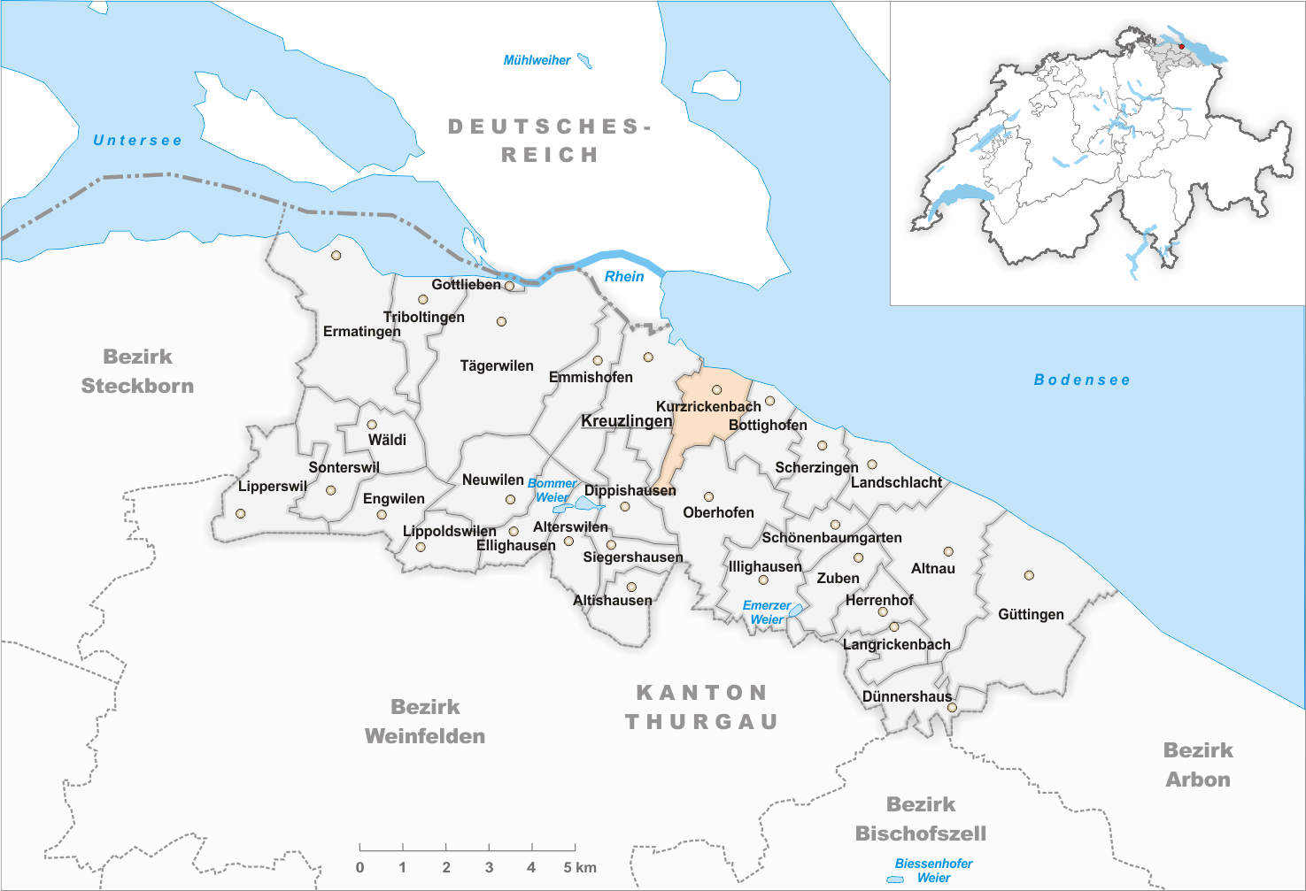 Municipality Kurzrickenbach